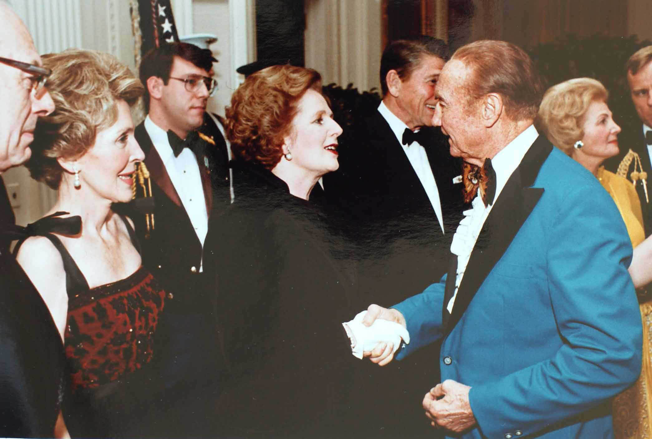 PM Margaret Thatcher meets Senator Strom Thurmond; Denis Thatcher and First Lady Nancy Reagan can be seen at left, as well as President Ronald Reagan in the background